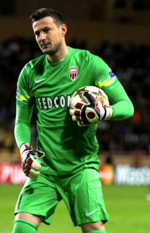 Danijel Subasić